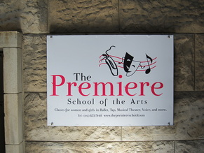 Sign outside the Premiere School of the Arts on 17 Strauss